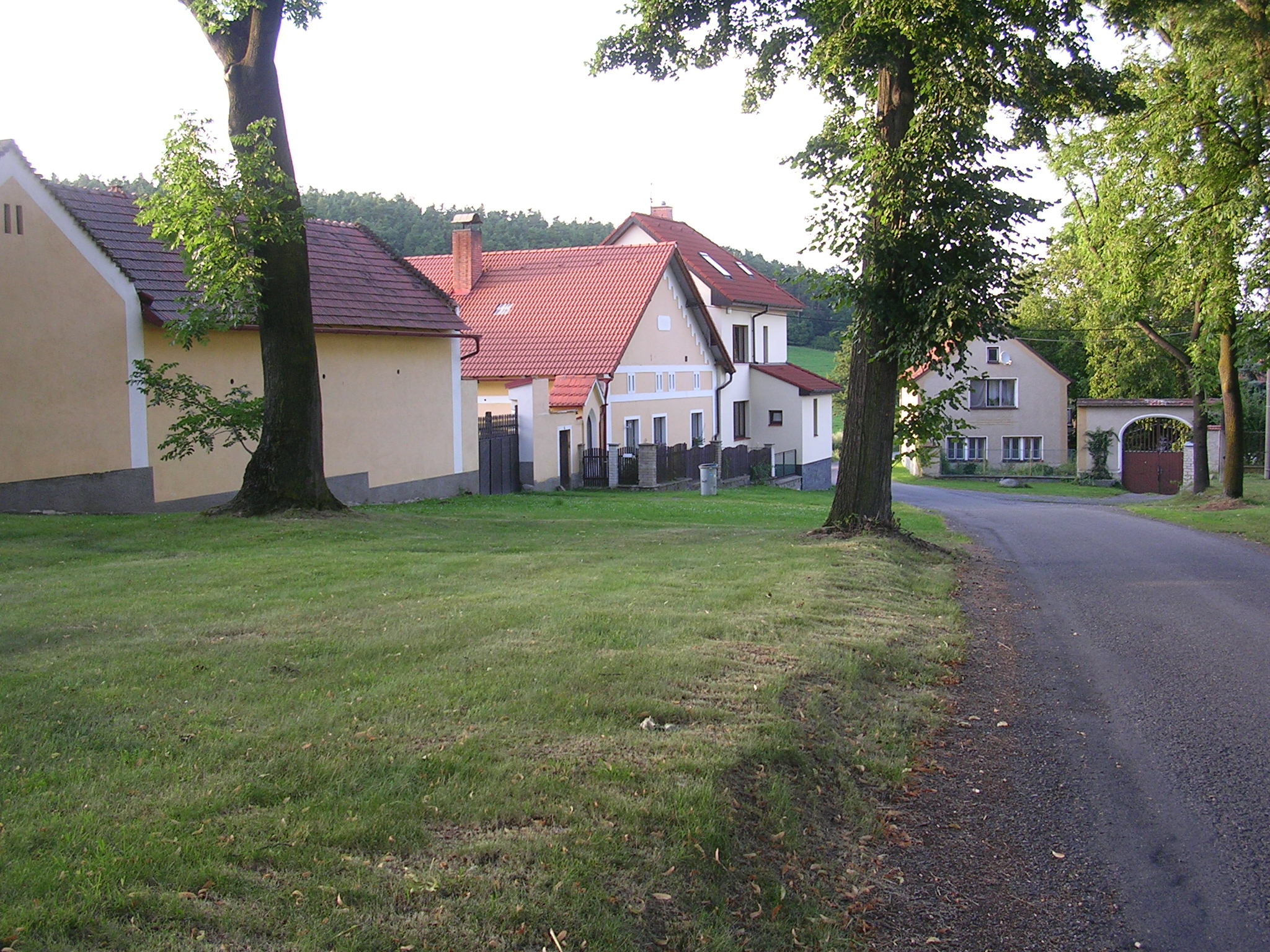 Dublovice-Břekova Lhota, Příbram District, Central Bohemian Region, the Czech Republic.